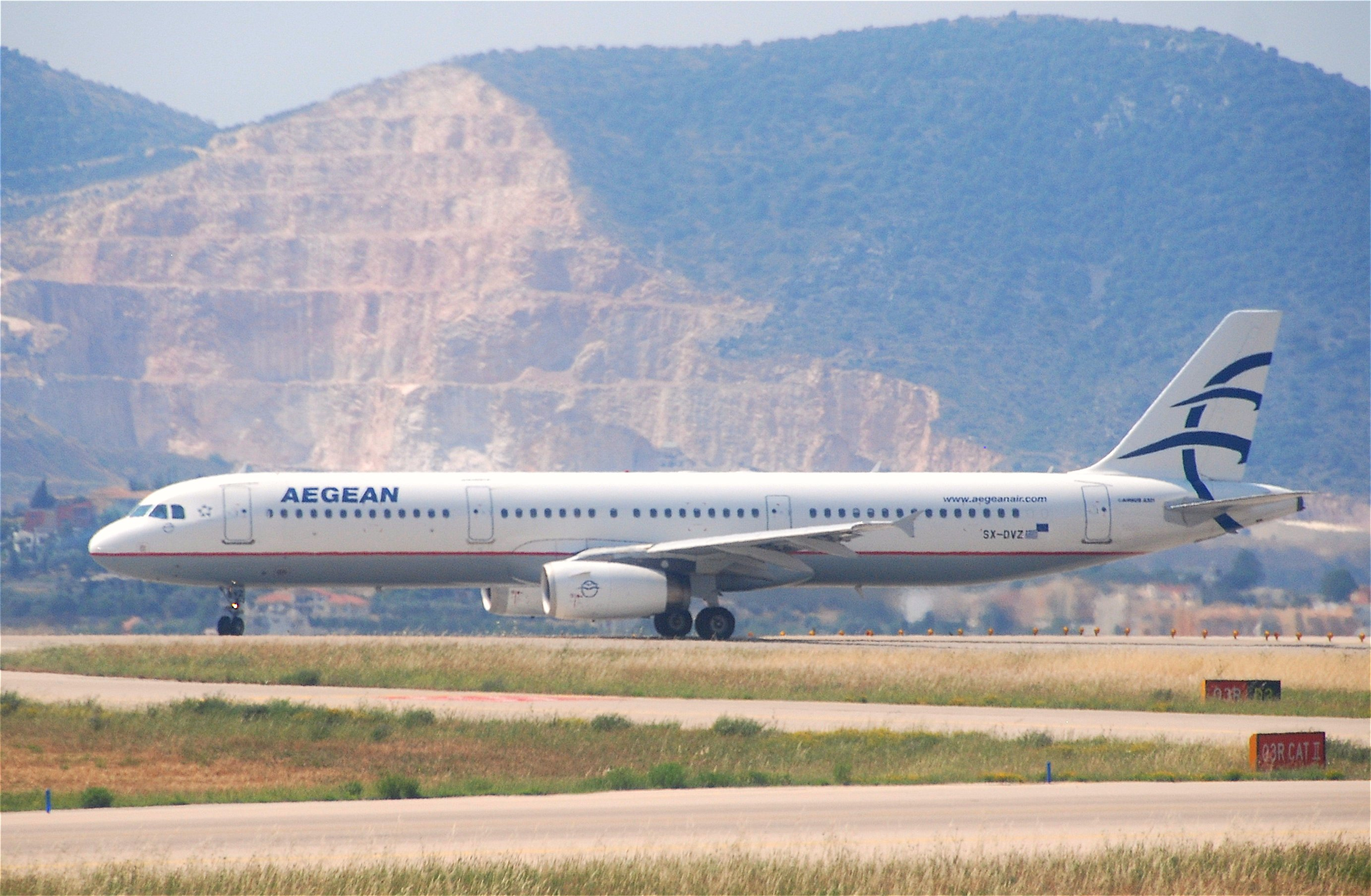 Aegean Airlines Airbus A321-232; SX-DVZ@ATH;12.06.2011/600bw